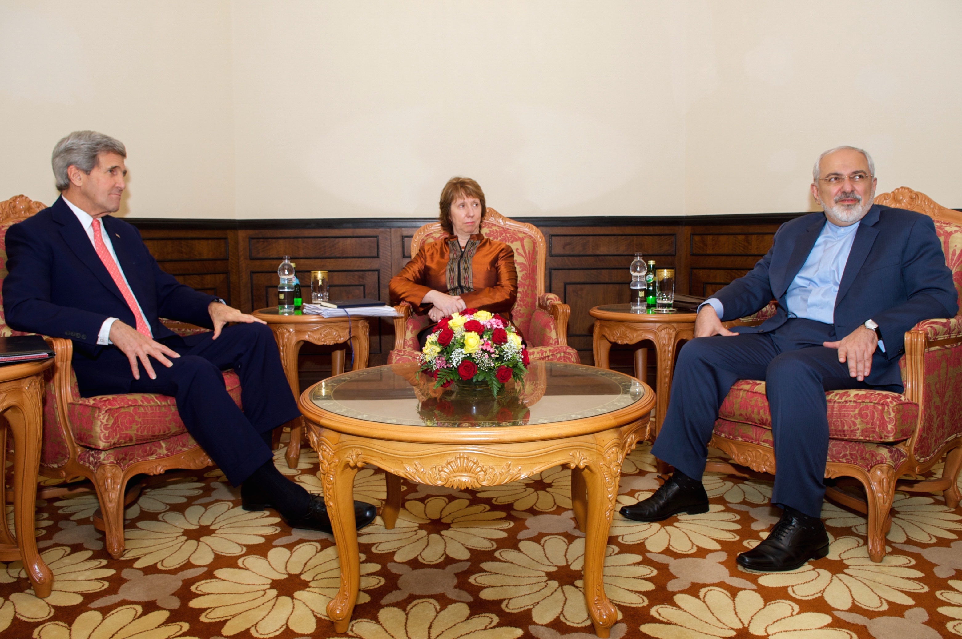 U.S. Secretary of State John Kerry, Baroness Catherine Ashton of the European Union, and Foreign Minister Javad Zarif of Iran sit together in Muscat, Oman, on November 9, 2014, before beginning their fourth trilateral meeting in two days as the U.S., Iran, and the P5+1 group of nations negotiate about the future of Iran's nuclear program. [State Department photo/ Public Domain]